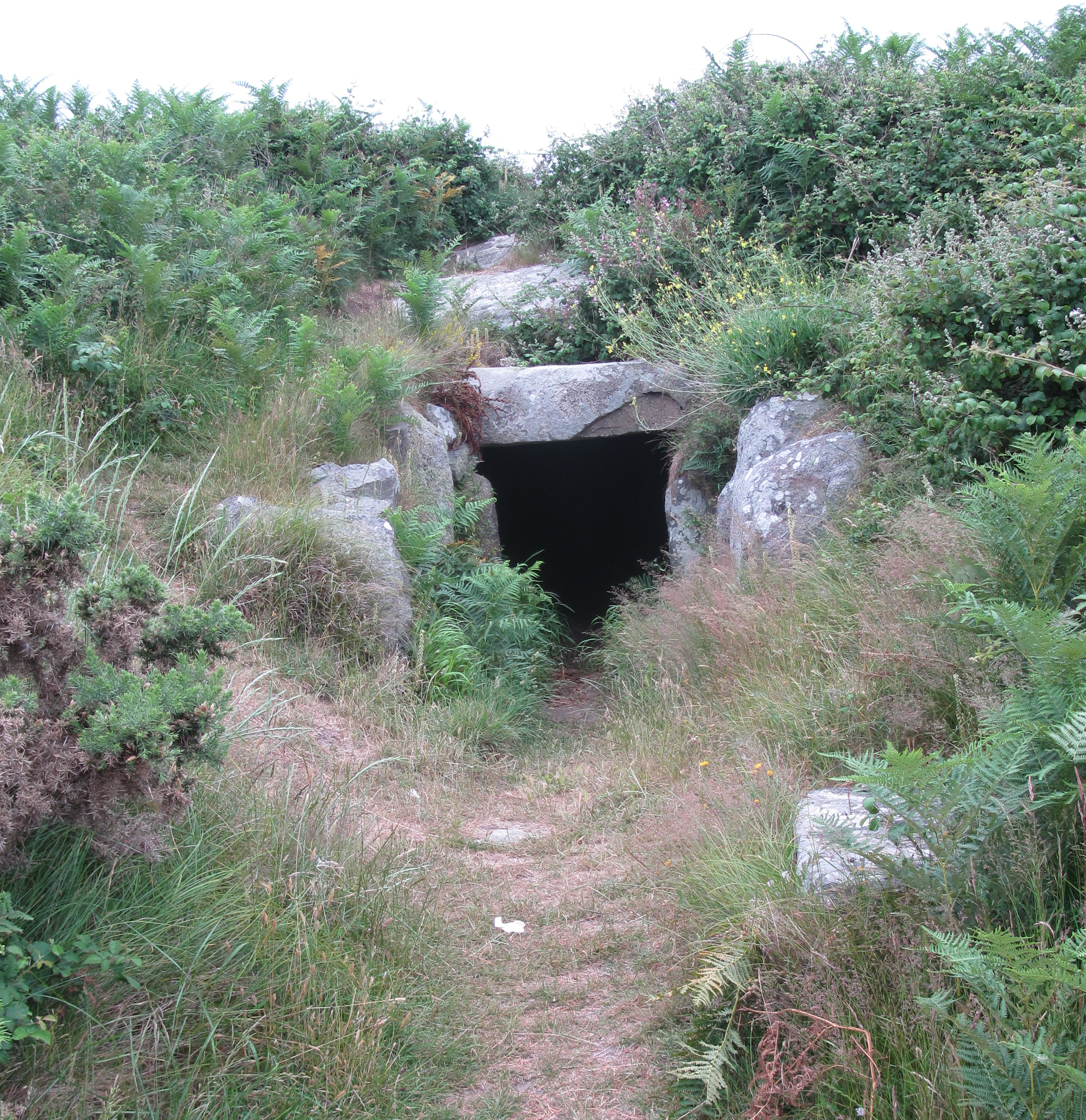 Guernsey, 2 July 2010: Entrance to the dolmen La Varde in Vale parish